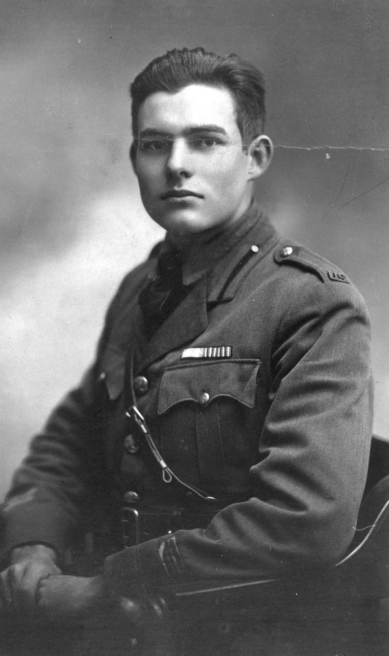 Ernest Hemingway in Milan, 1918